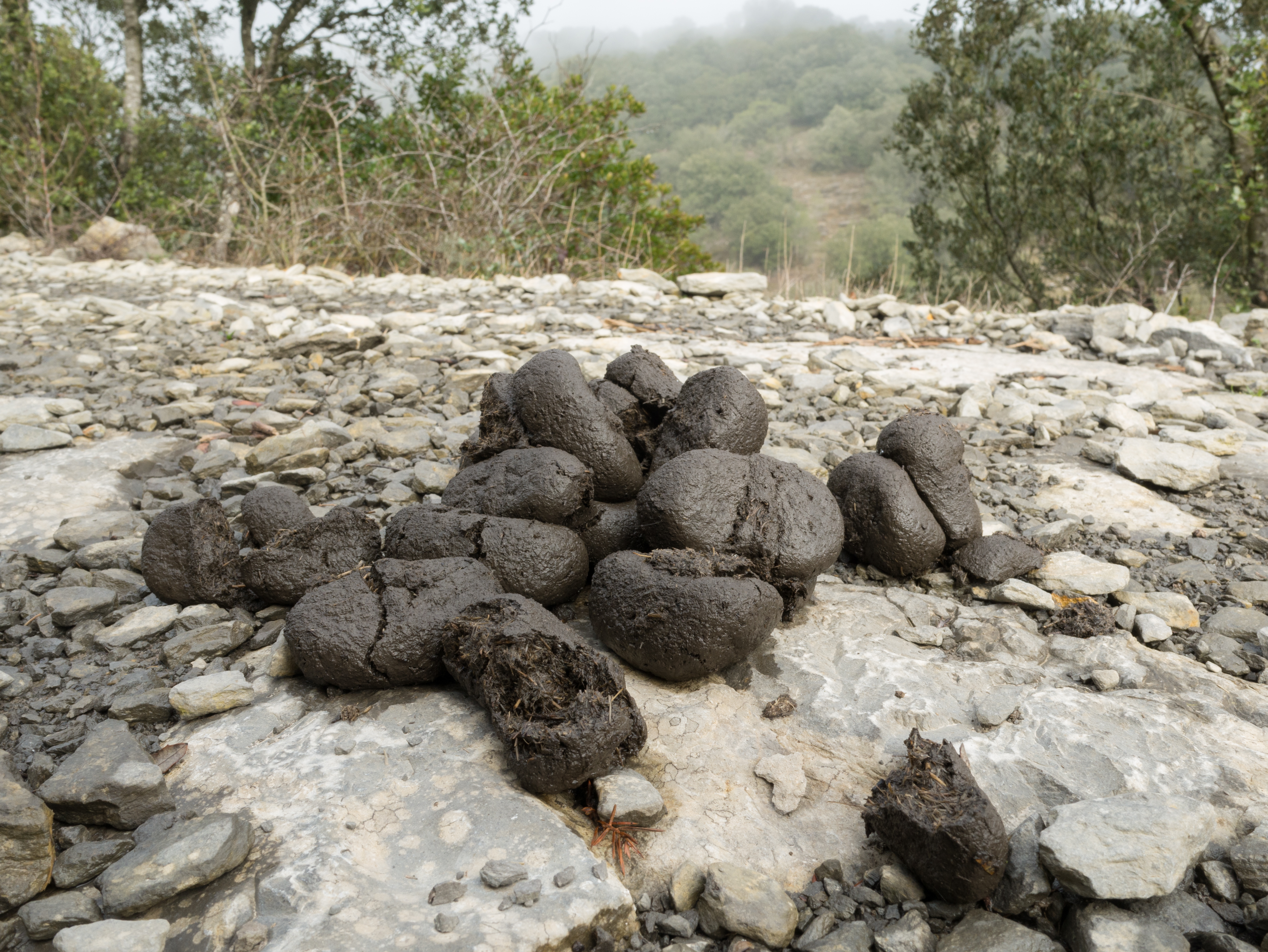 Horse feces of free-roaming basque mountain horses. Sierra de Badaia, Los Goros Canyon. Álava, Basque Country, Spain